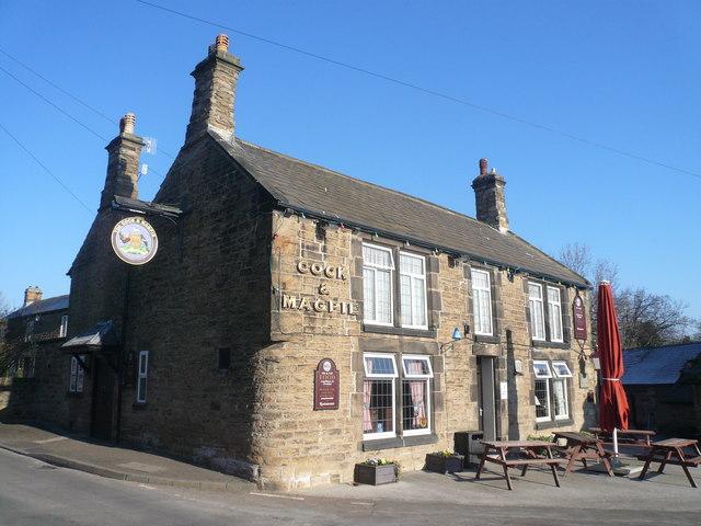 Old Whittington - Cock and Magpie